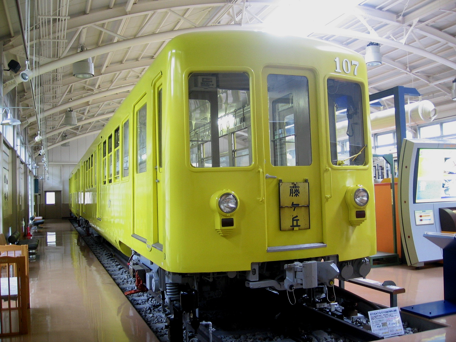 名古屋市交通局100形電車（レトロでんしゃ館にて）(Transportation Bureau City of Nagoya 100 Series in Nagoya City Tram & Subway Museum)